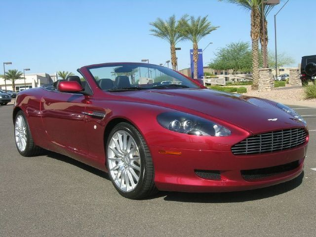 Aston Martin DB9